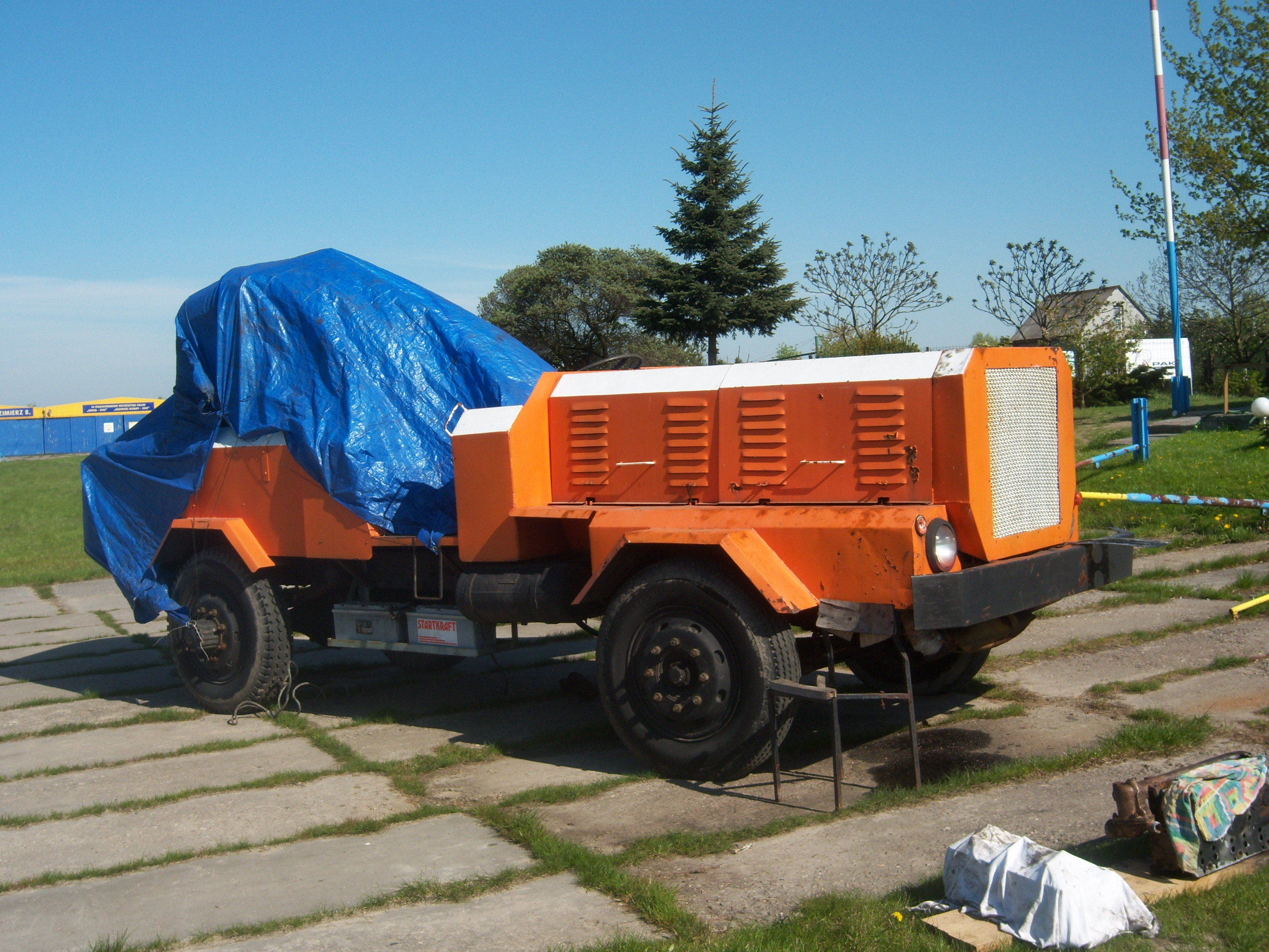 Glider winch